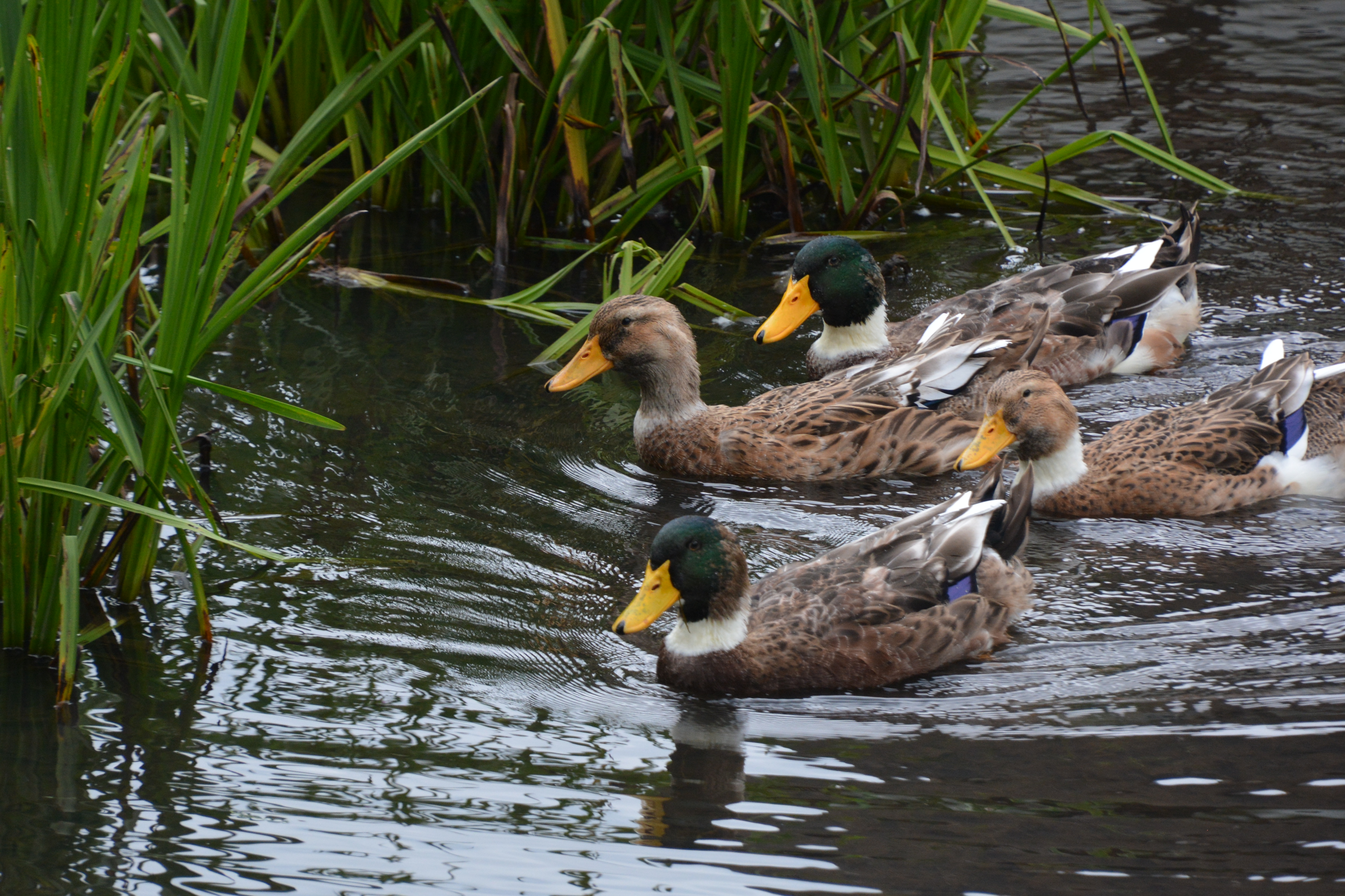 Blekingeankor